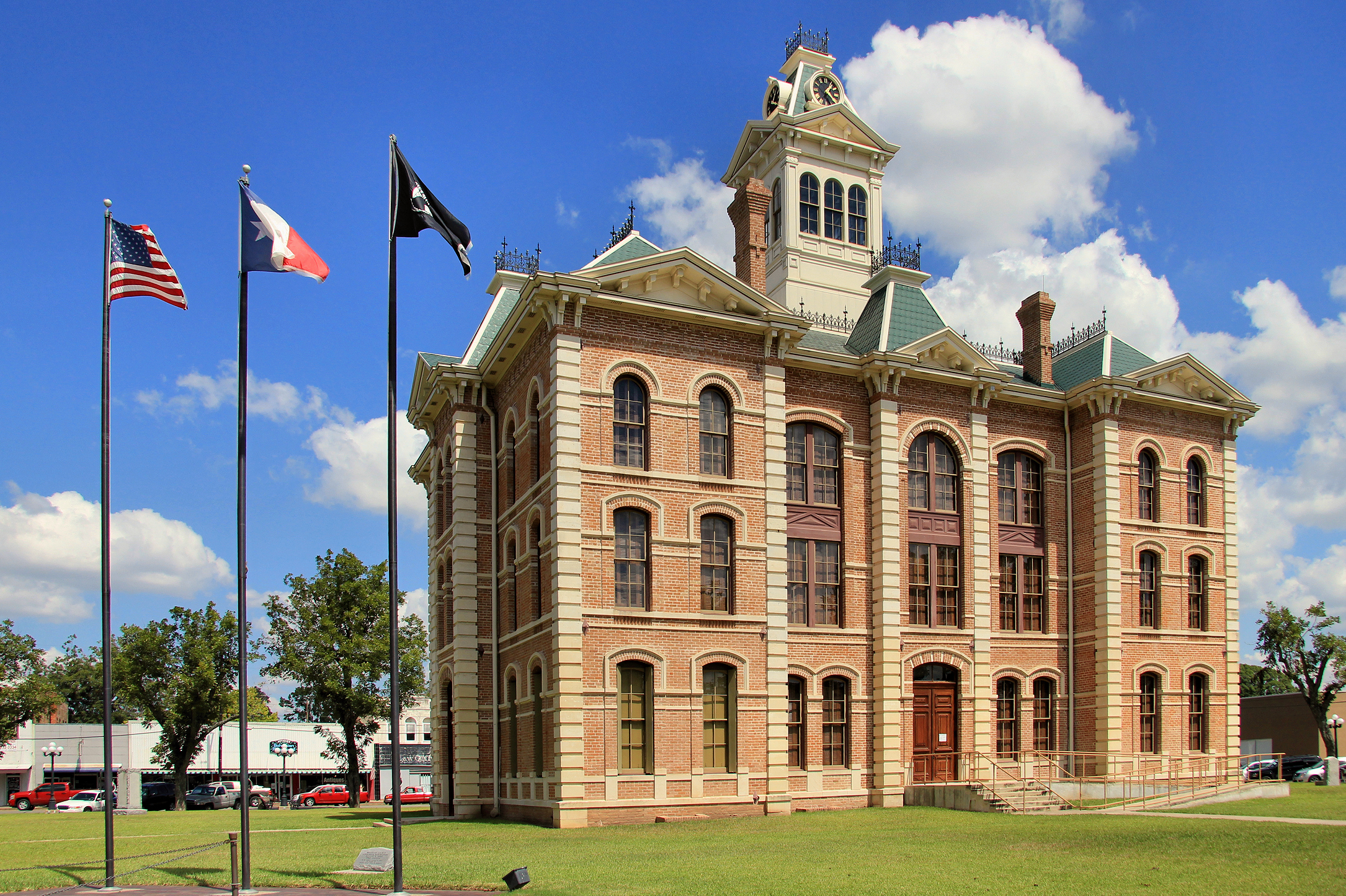 The Wharton County Courthouse in Wharton, Texas, United States. The courthouse was listed on the National Register of Historic Places on November 5, 1991 as part of the Wharton County Courthouse Historic Commercial District and designated a Recorded Texas Historic Landmark in 2001.